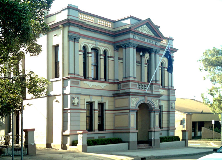 The Town Hall of Granville, a suburb of Sydney, NSW, AU